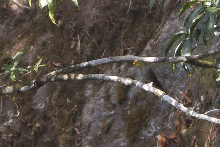 The endangered species Yellow-rumped Honeyguide had been photographed during the birding trip of GoingWild in Khangchendzonga National Park in West Sikkim, Sikkim, India on 17.02.2016.